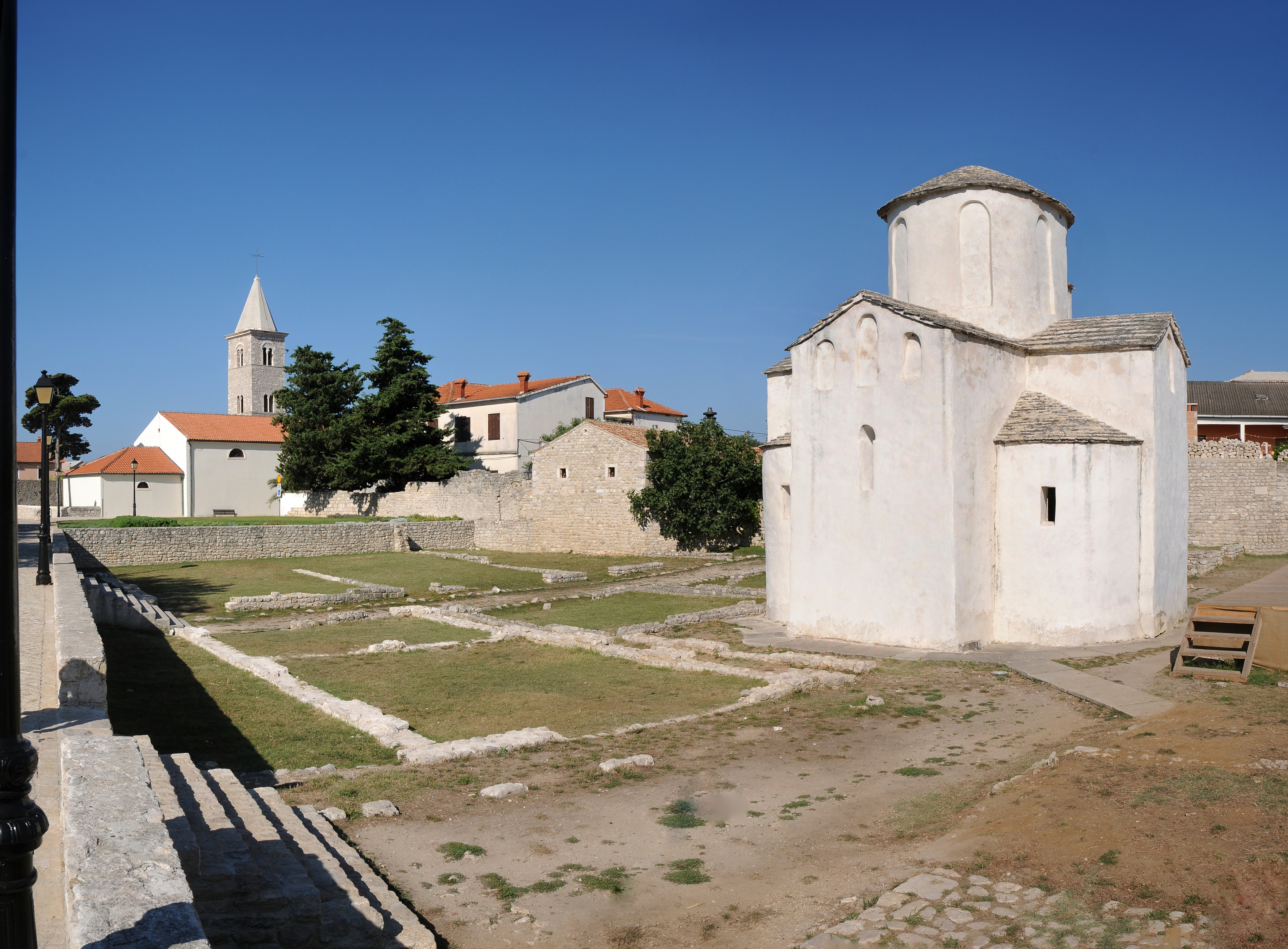 Nin, Croatia - Church of St. Cross